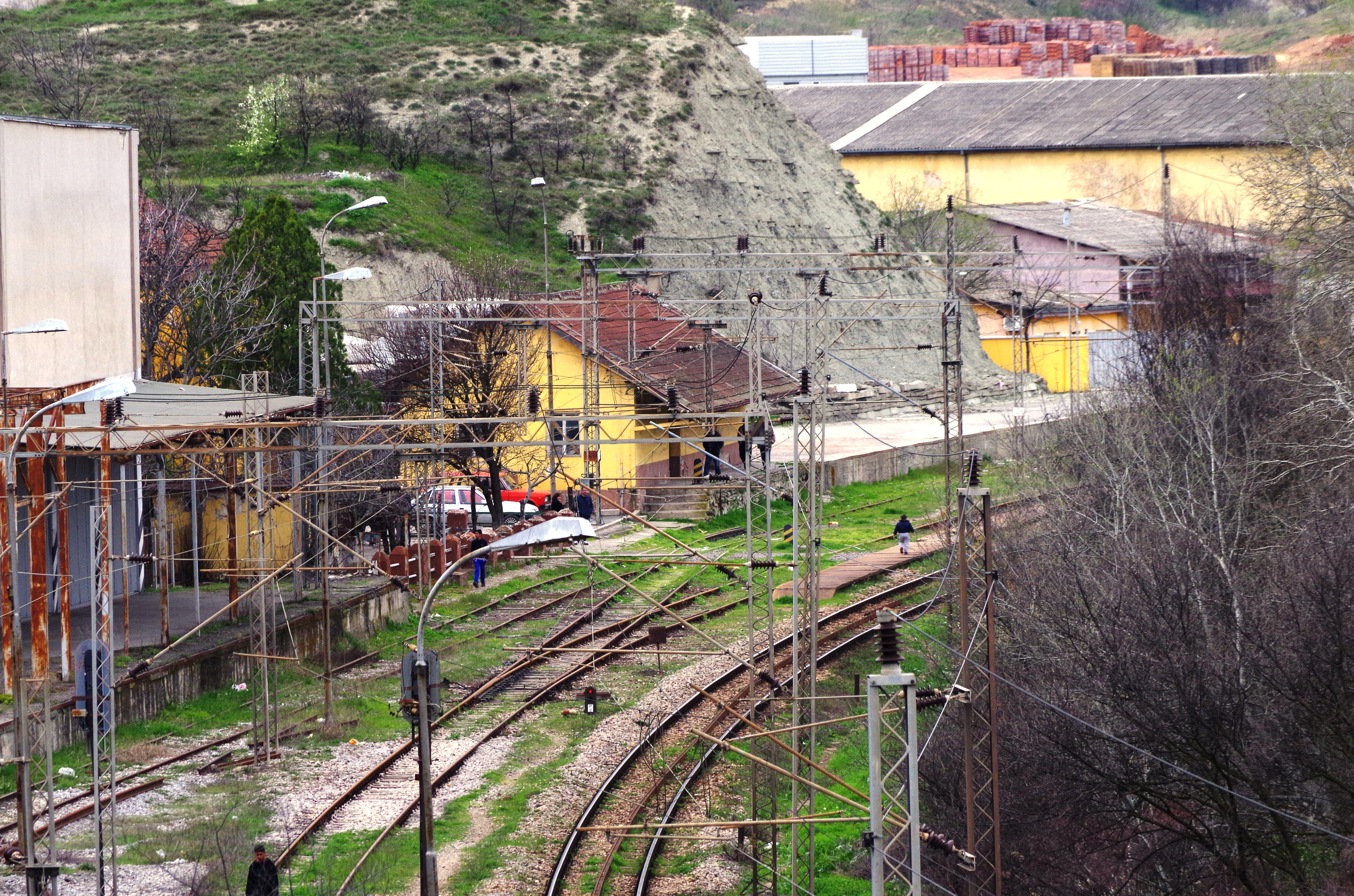 View of the train station Negotino-Vardar